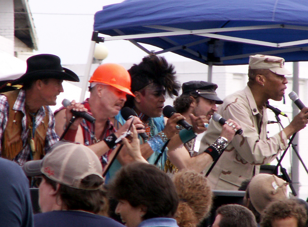 The Village People at Asbury Park, New Jersey June 3, 2006